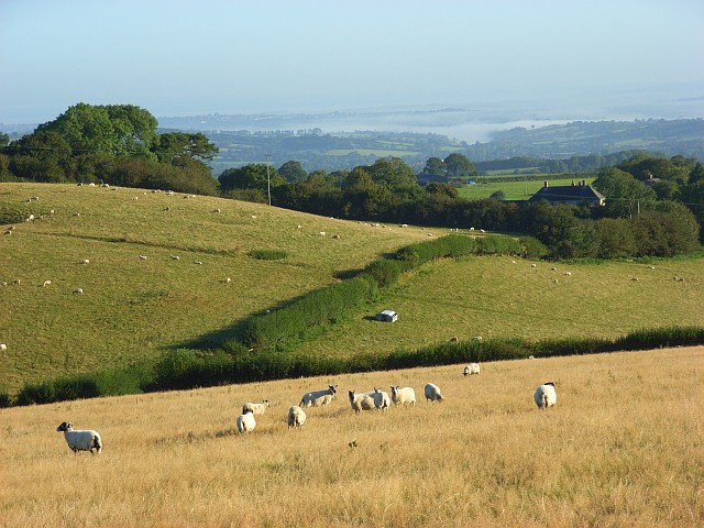 Toller Down Rolling pastures above a misty valley stretching towards Yeovil. The rooftop is at Catsley.